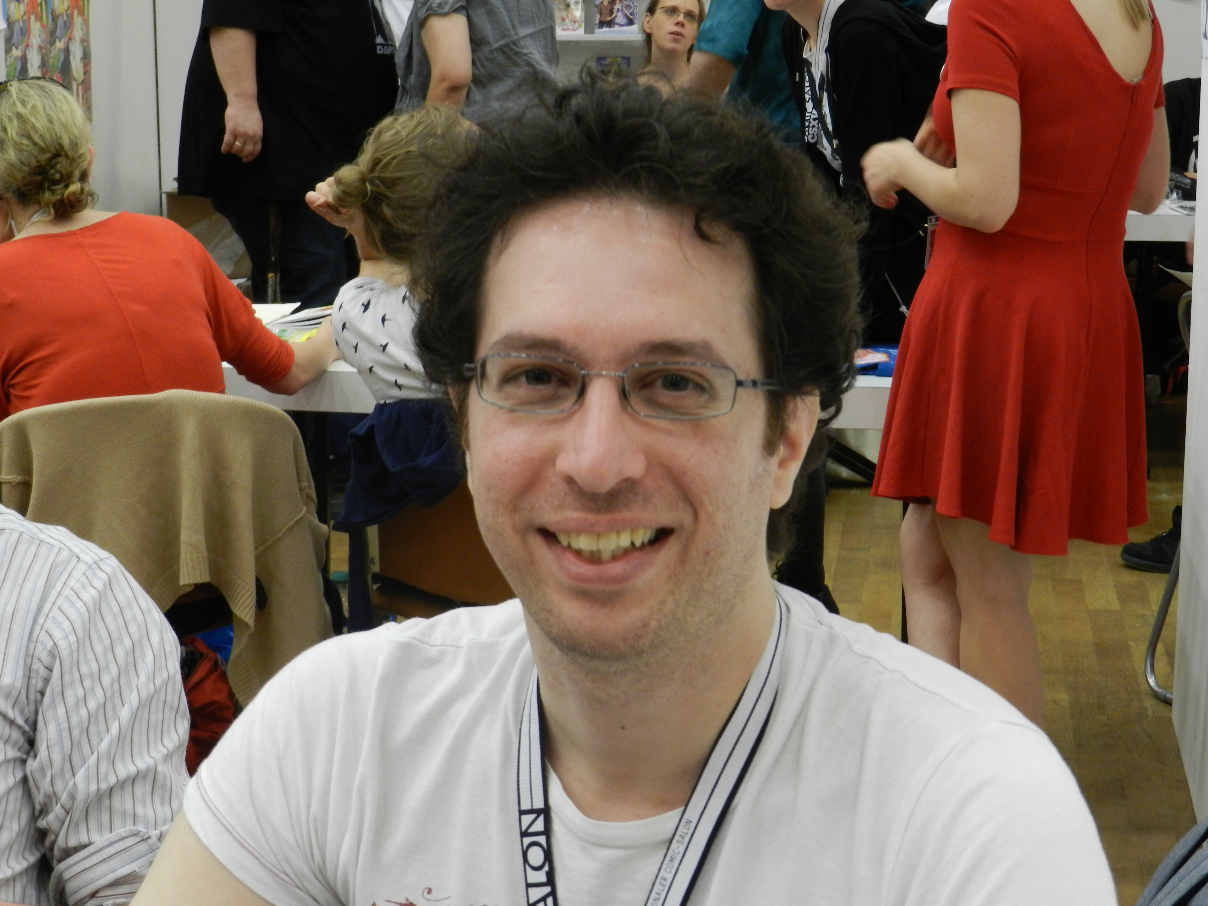 The Cartoon Artist Ioannis Milionis taken at the International Comic Salon in Erlangen, Germany